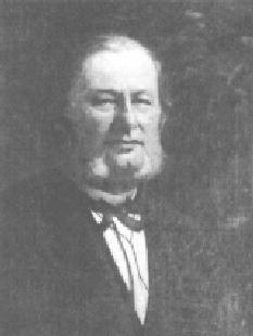 Isaac Wolffson (1817-1895), German politician